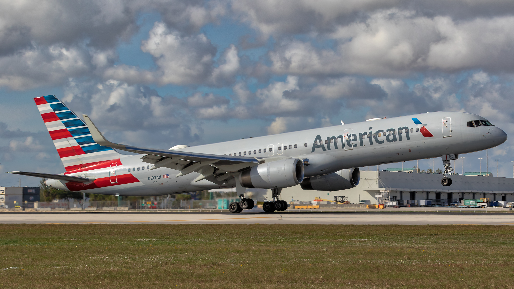 02092018_American Airlines_B752_N197AN_KMIA_NASEDIT